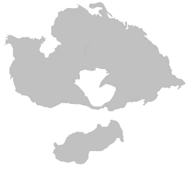 Estimation and appoximation of Pangea Ultima, based on information at [1]; not for scientific use.